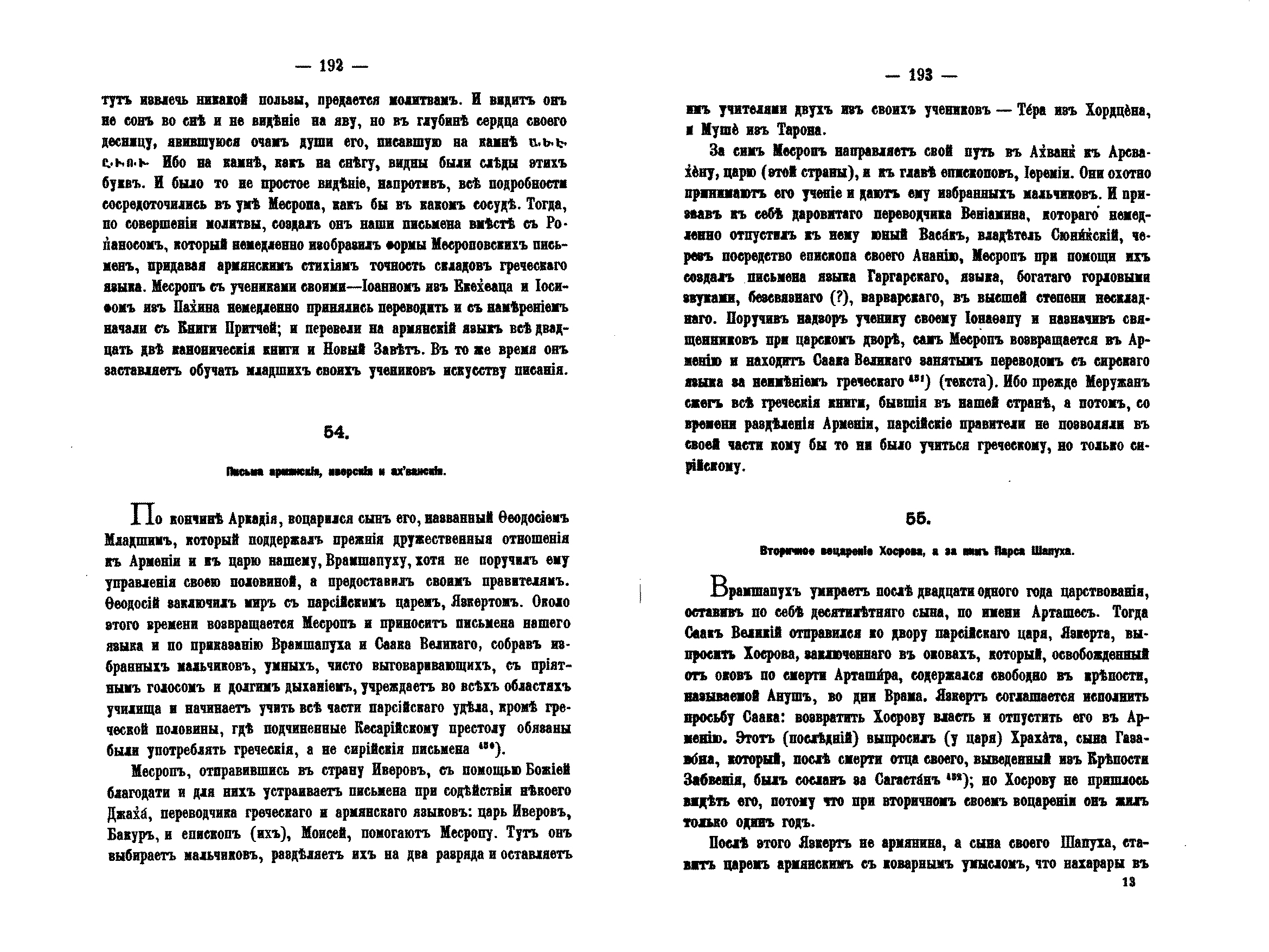 History of Armenia - Movses Khorenatsi 1893 (page.192-193) Georgian alphabet